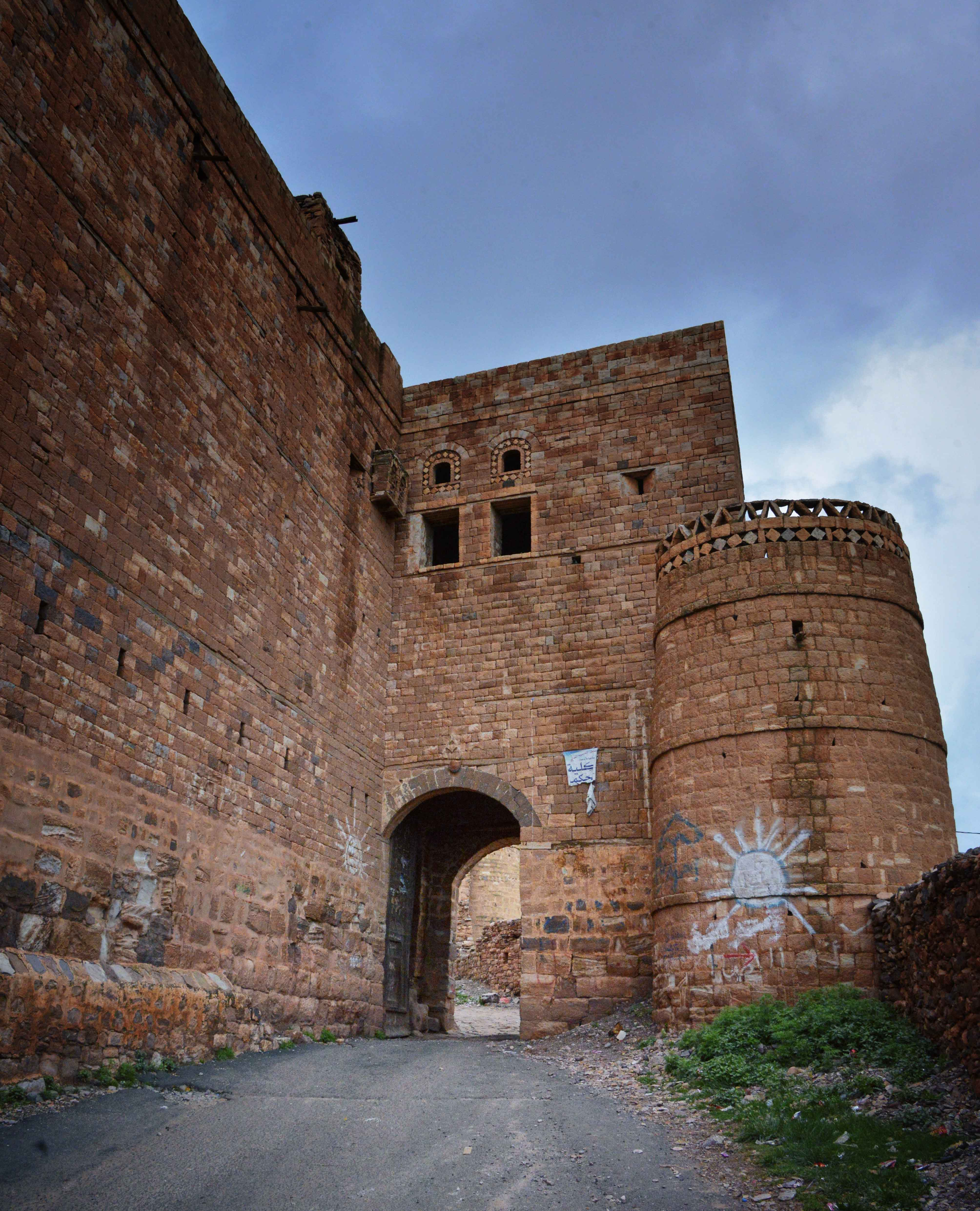 Entrance Kawkaban Fortress Town, Yemen